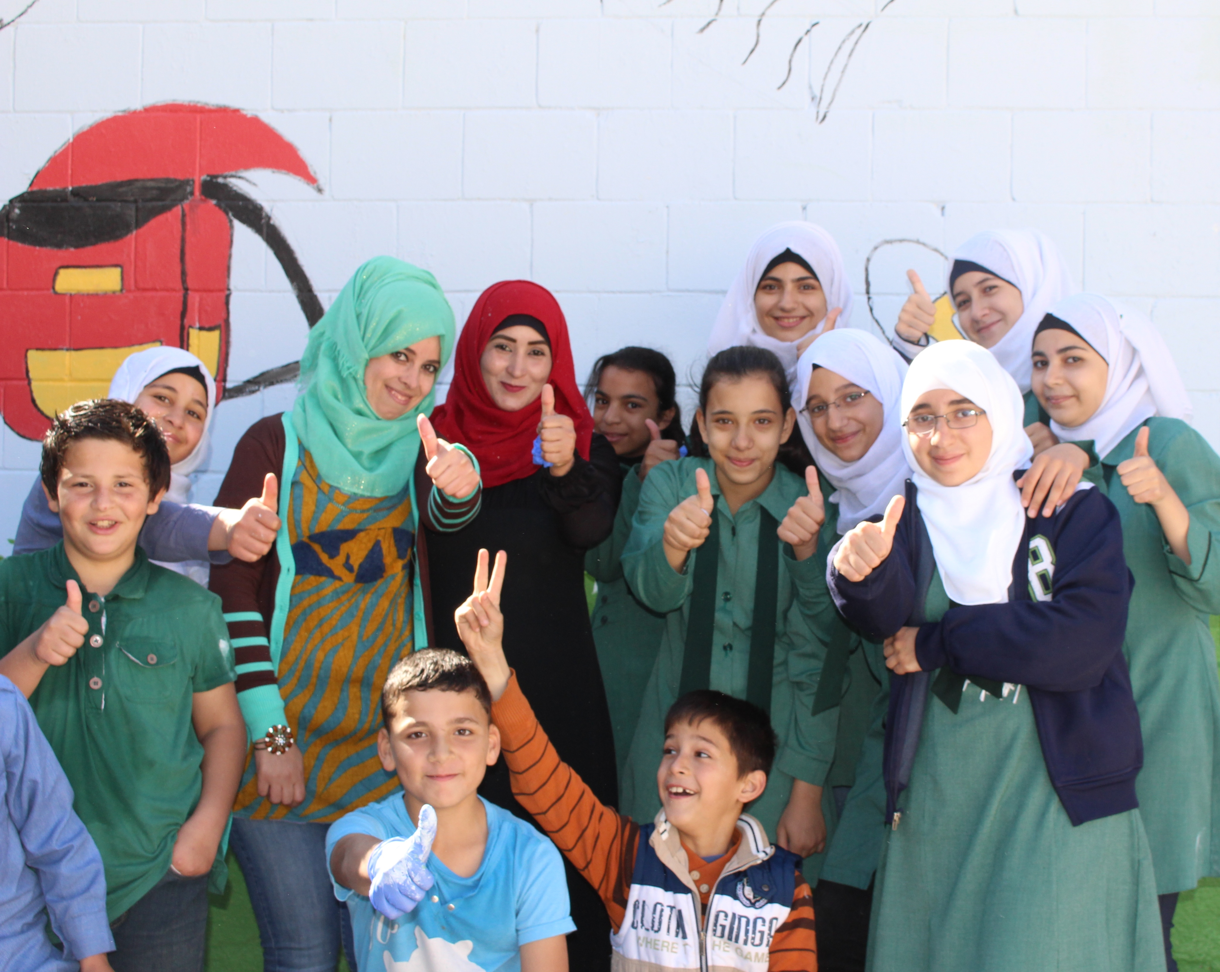 Second shift Syrian kids in front of their painting project, Pilot school Ajnadeen Basic School for Girls in Al Barha, Irbid. By GIZ Jordan